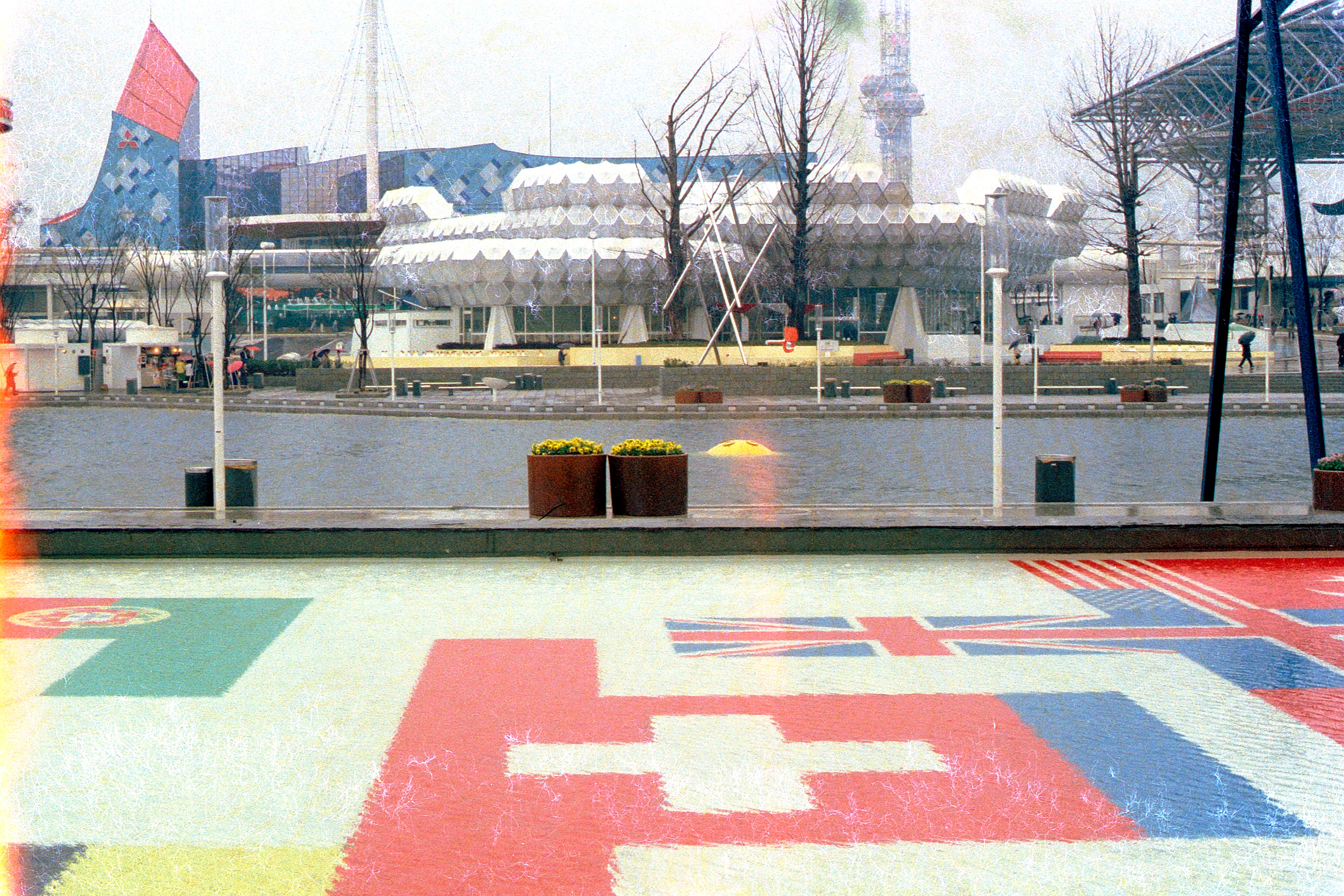 Telecommunications Pavilion, Osaka Expo'70. April 1970. 電気通信館。